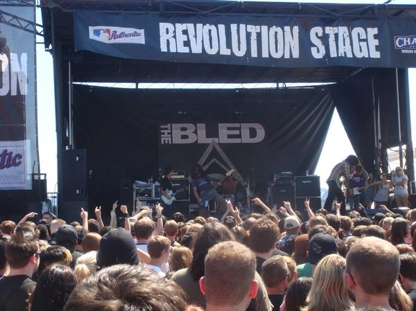 The Bled live on Projekt Revolution tour.